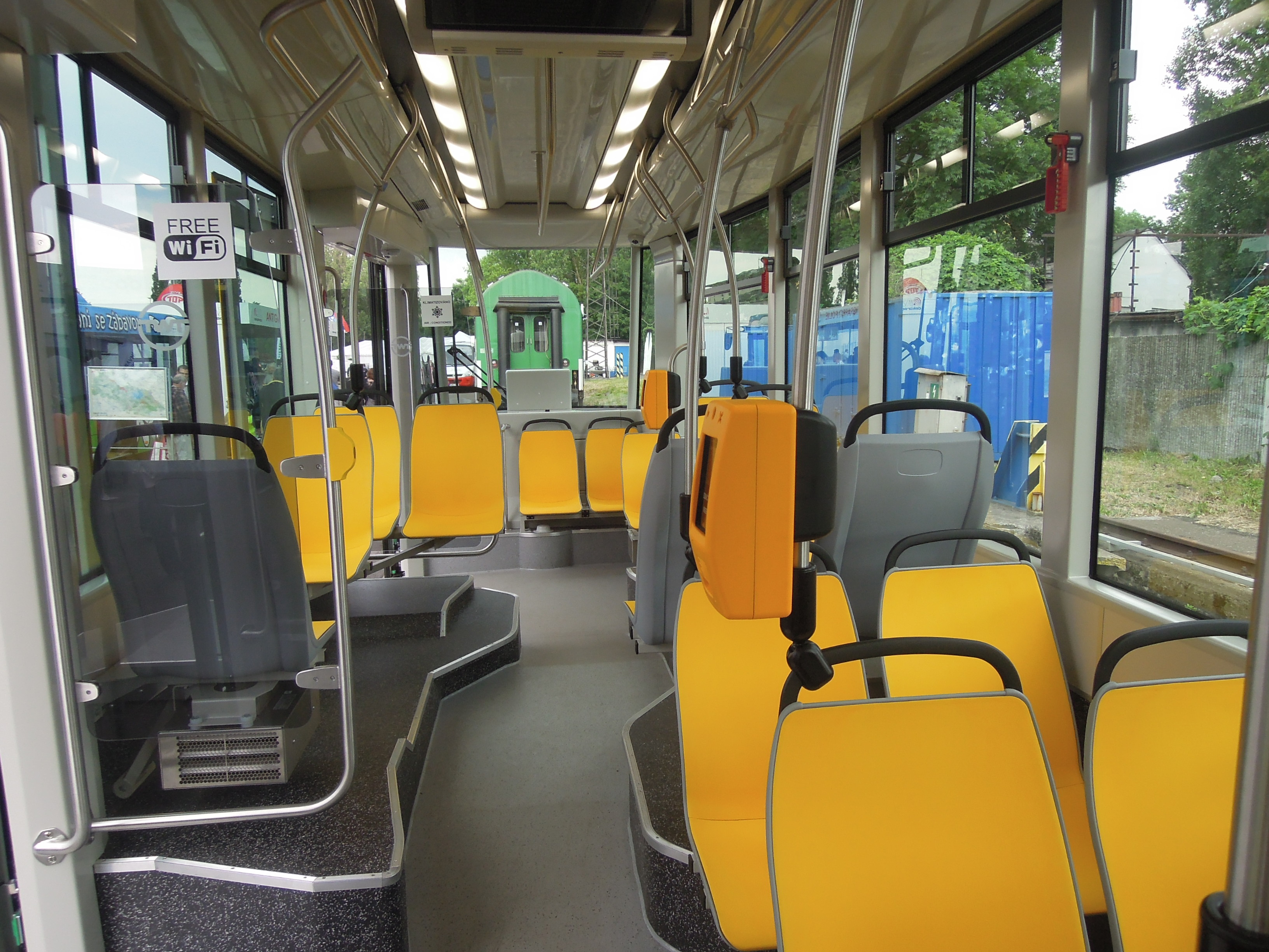 EVO1 tram at the Czech Raildays 2015 trade fair in Ostrava, Czech Republic